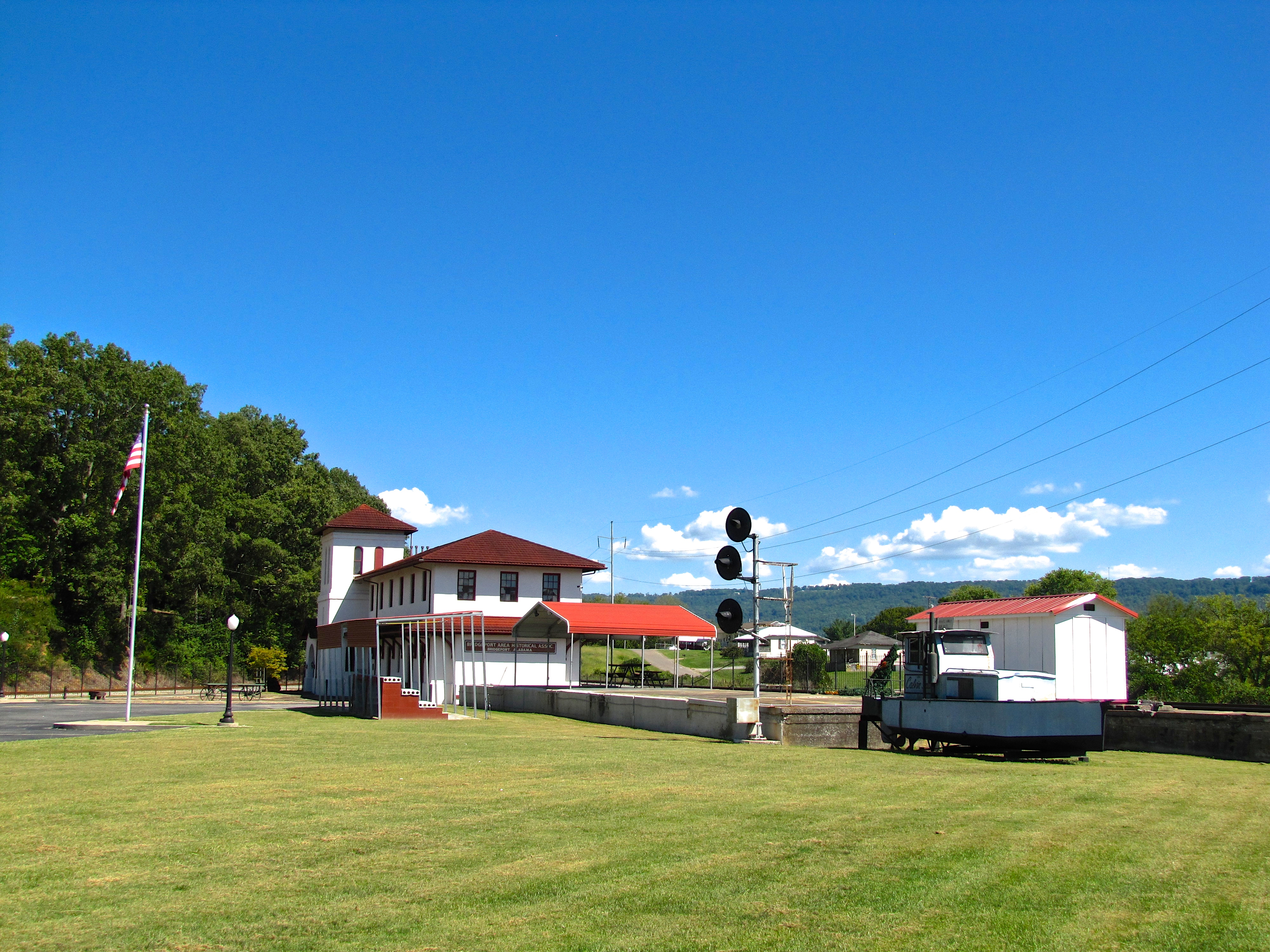 Bridgeport Depot Museum in Bridgeport, Alabama, United States.